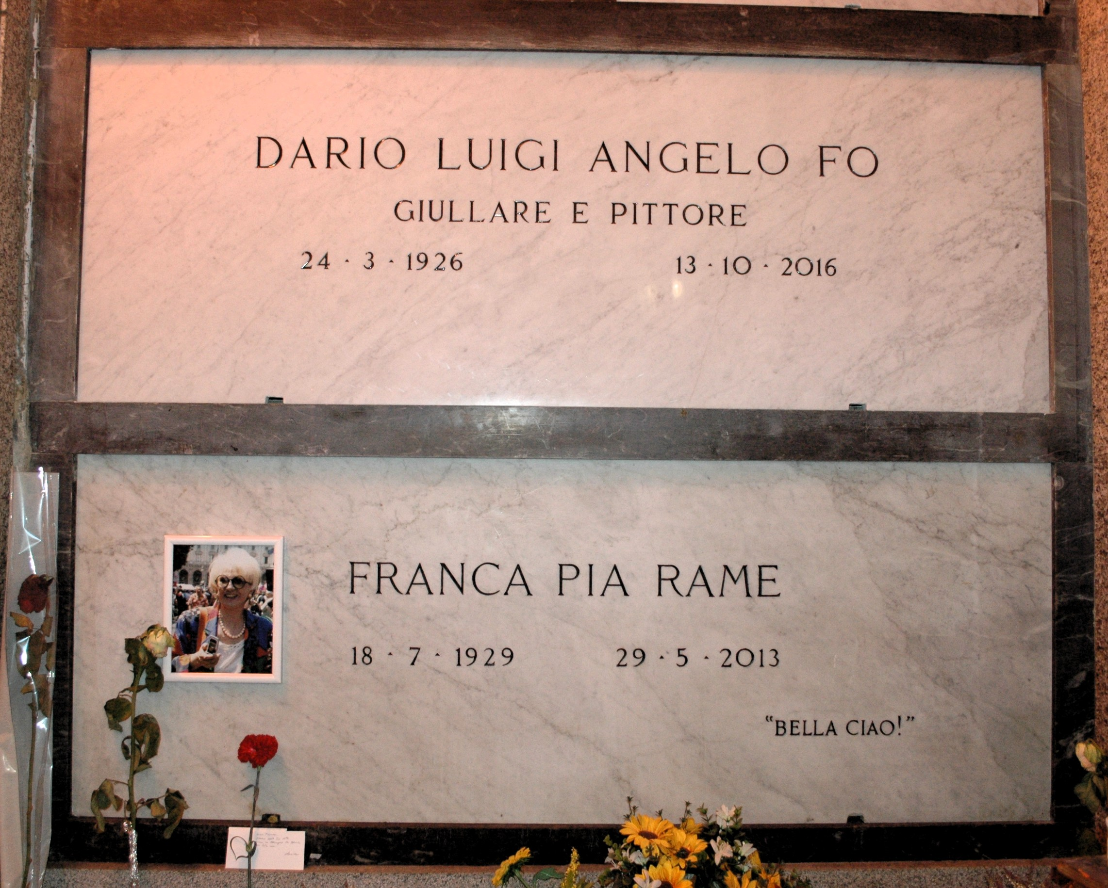 Grave of Dario Fo and Franca Rame in the Cimitero Monumentale of Milan